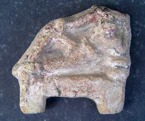 Ancient roman Hetaera (2. century, head is missing)